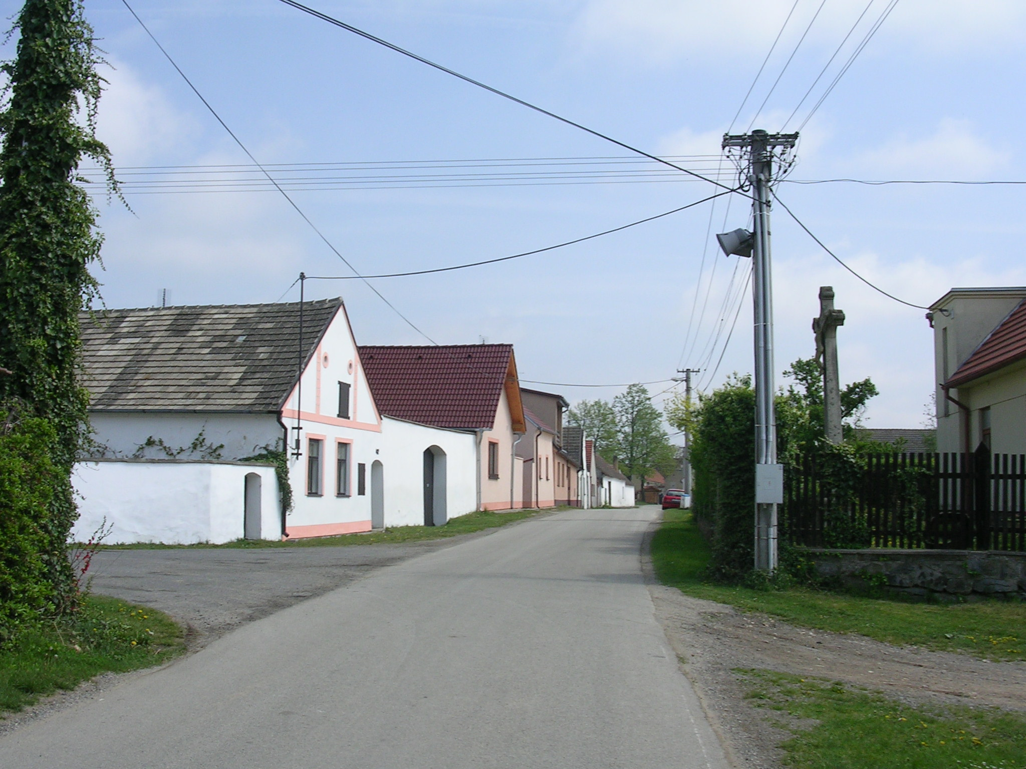 Drahov, South Bohemian Region, the Czech Republic.